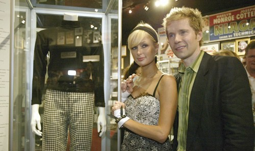 Paris Hilton and Mark Bellinghaus at the Hollywood Museum, in Hollywood, CA., in front of a display of authentic Marilyn Monroe clothing.